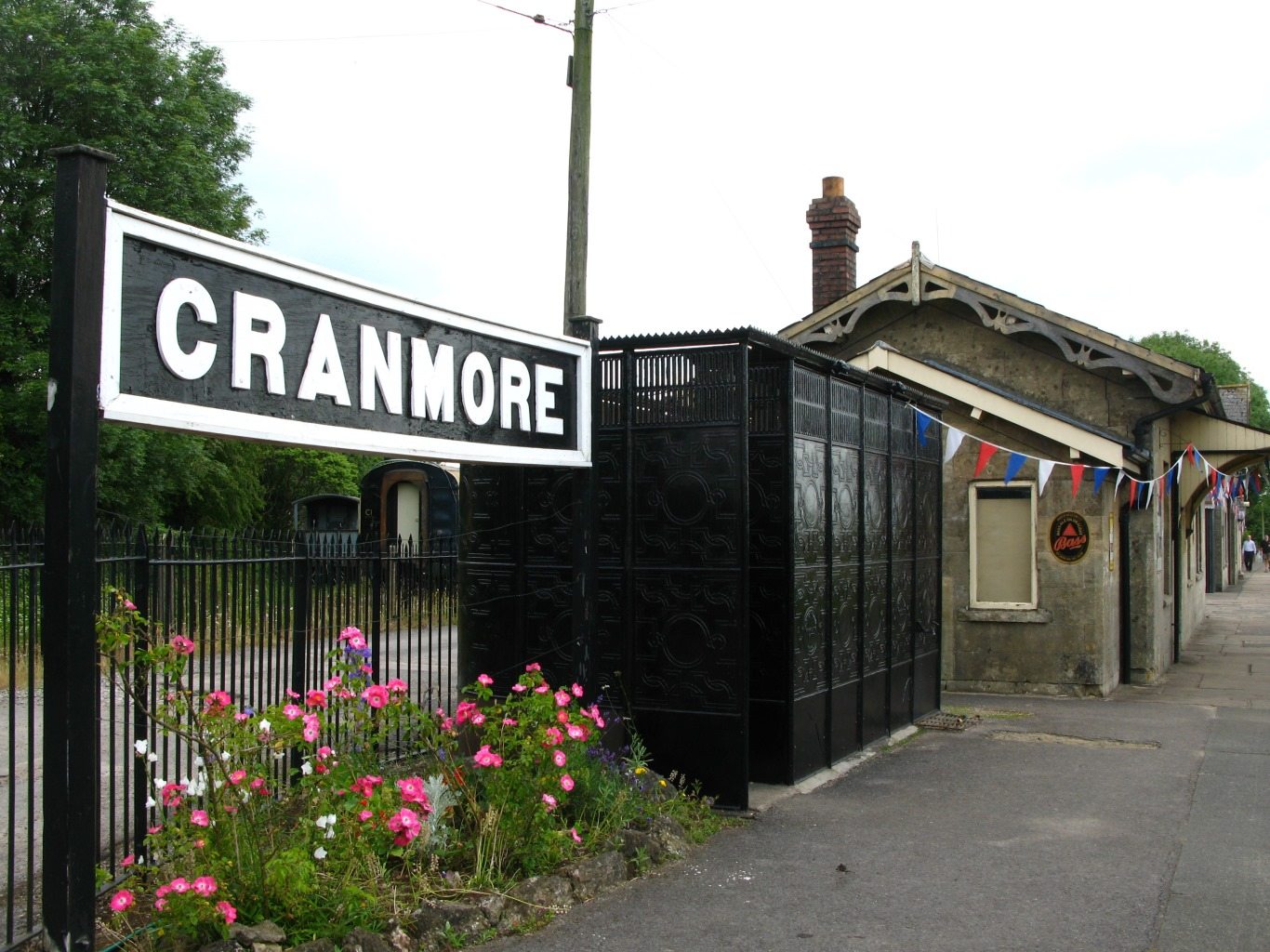 The railway station at Cranmore in Somerset. The black structure is the station's heritage cast iron urinal.